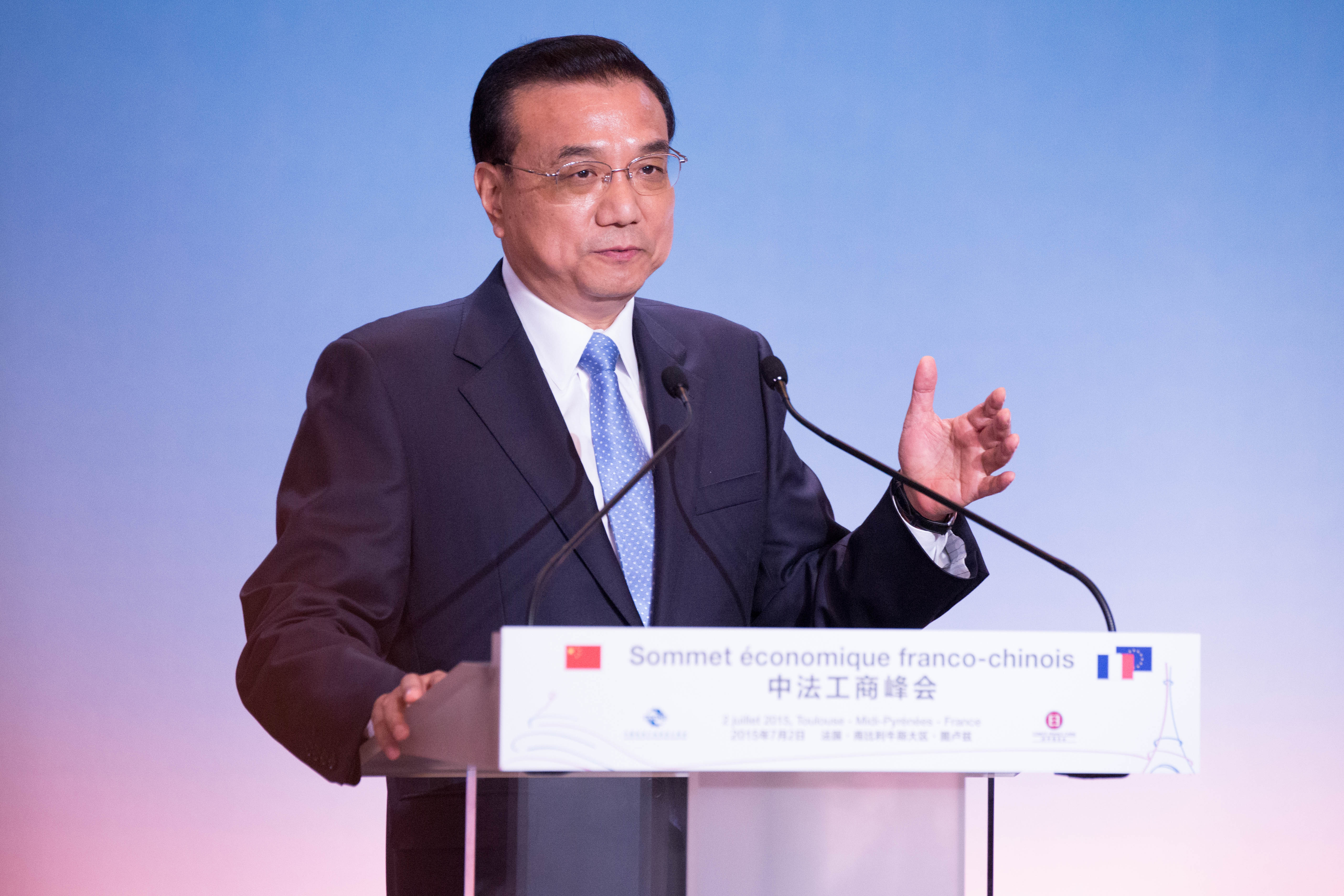 Li Keqiang at Sommet économique franco-chinois